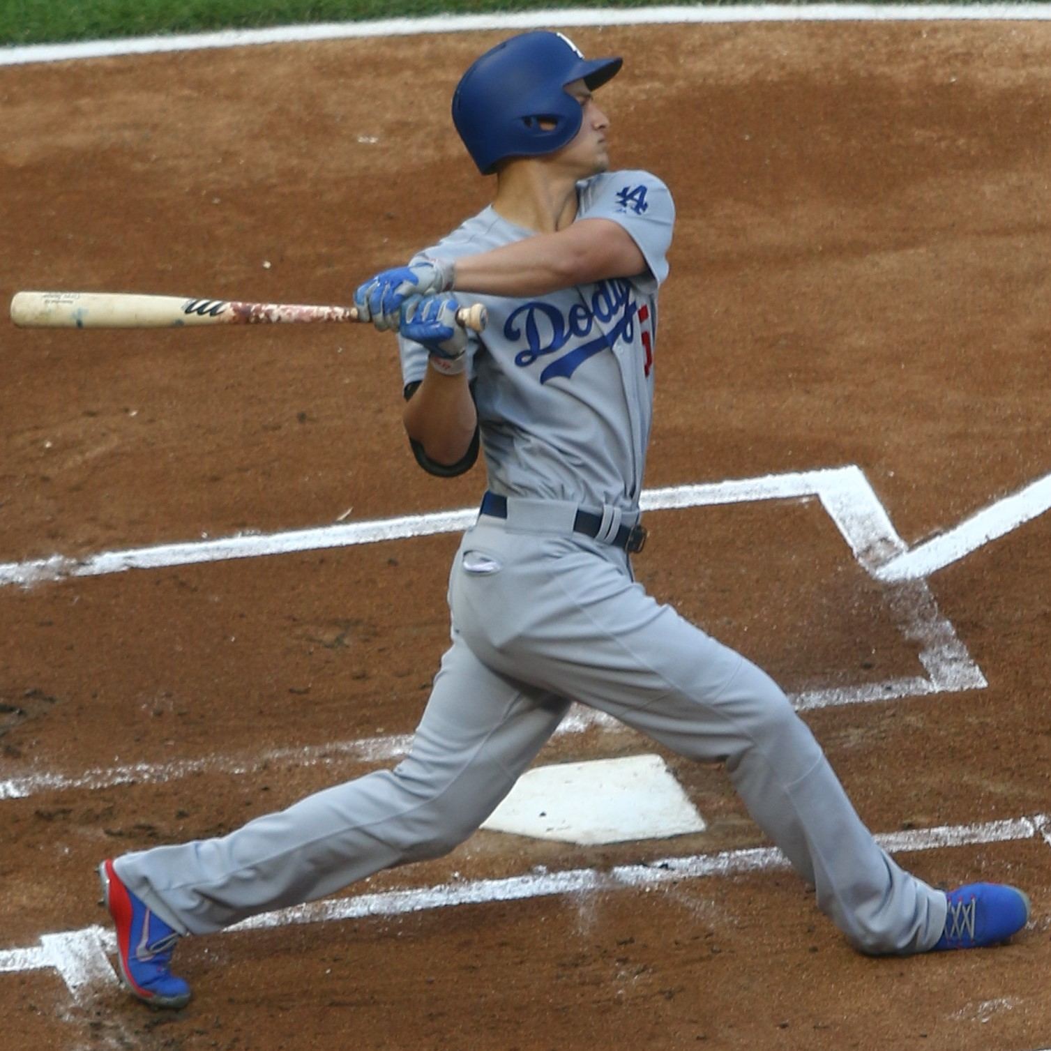 Corey Seager for the 2017 Los Angeles Dodgers